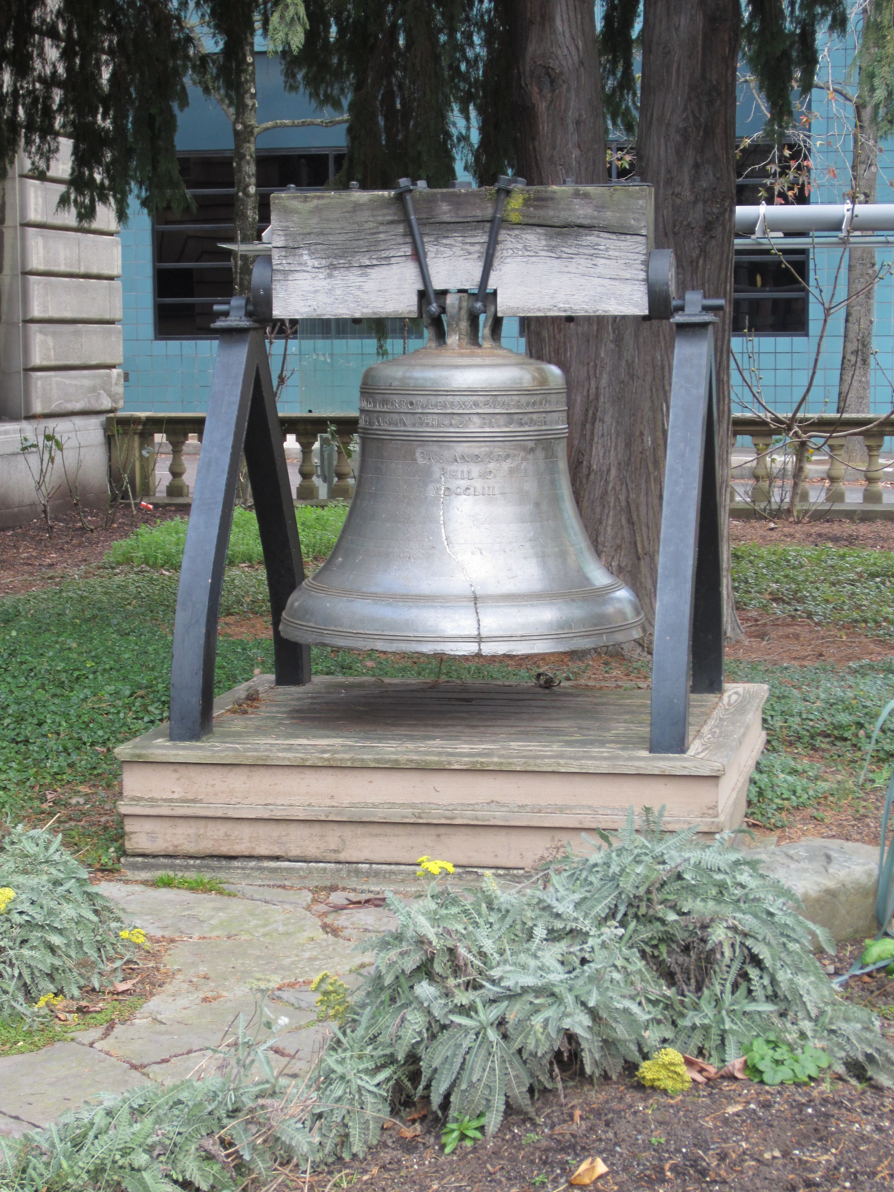 Bell outside City Hall in downtown Portland, Oregon in 2012